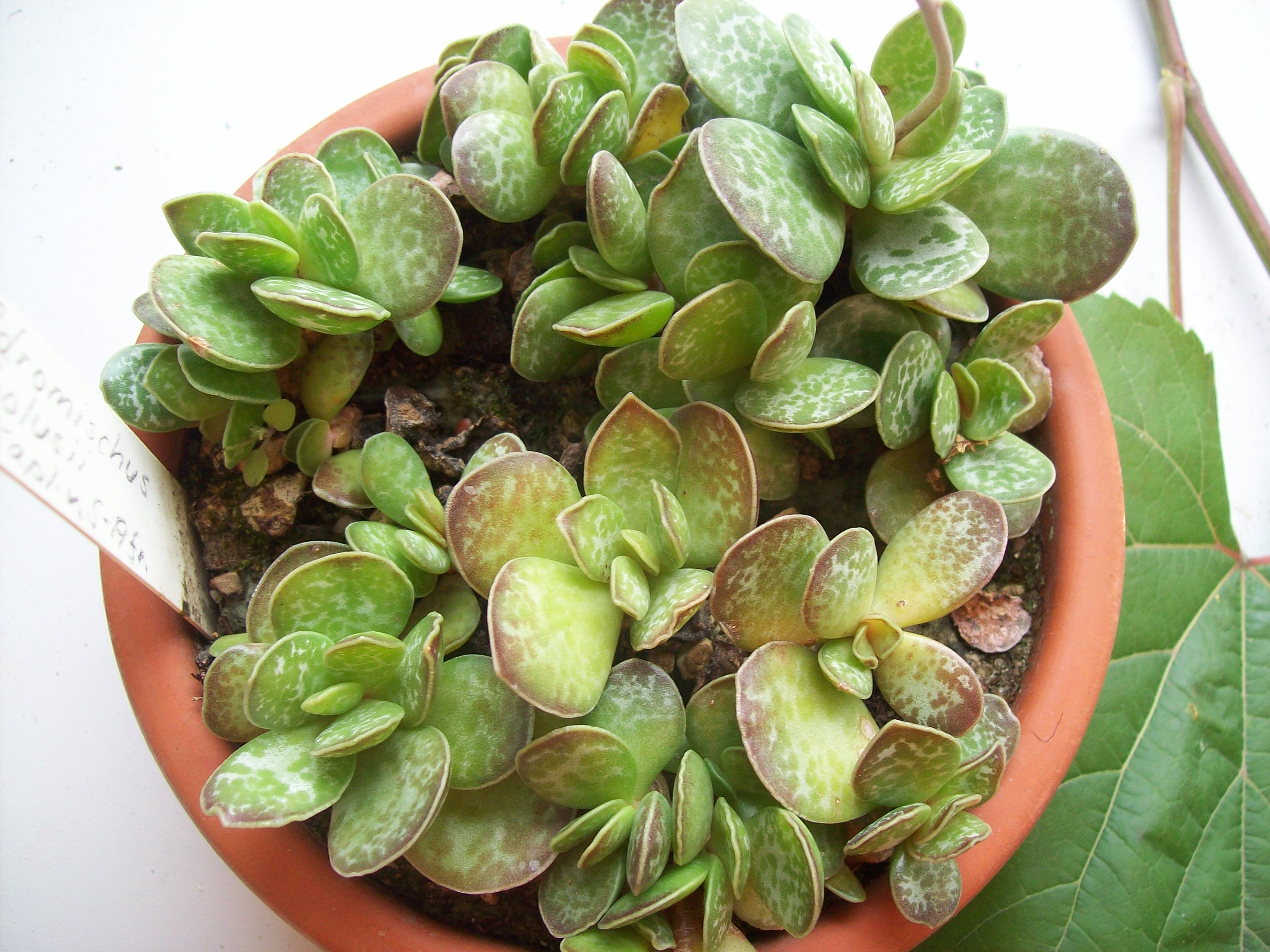 Adromischus caryophyllaceus in a plant pot